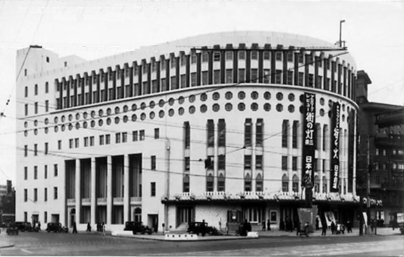 The NichiGeki Theatre at its completion.